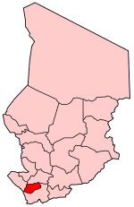 Map of Chad showing Logone Occidental region.